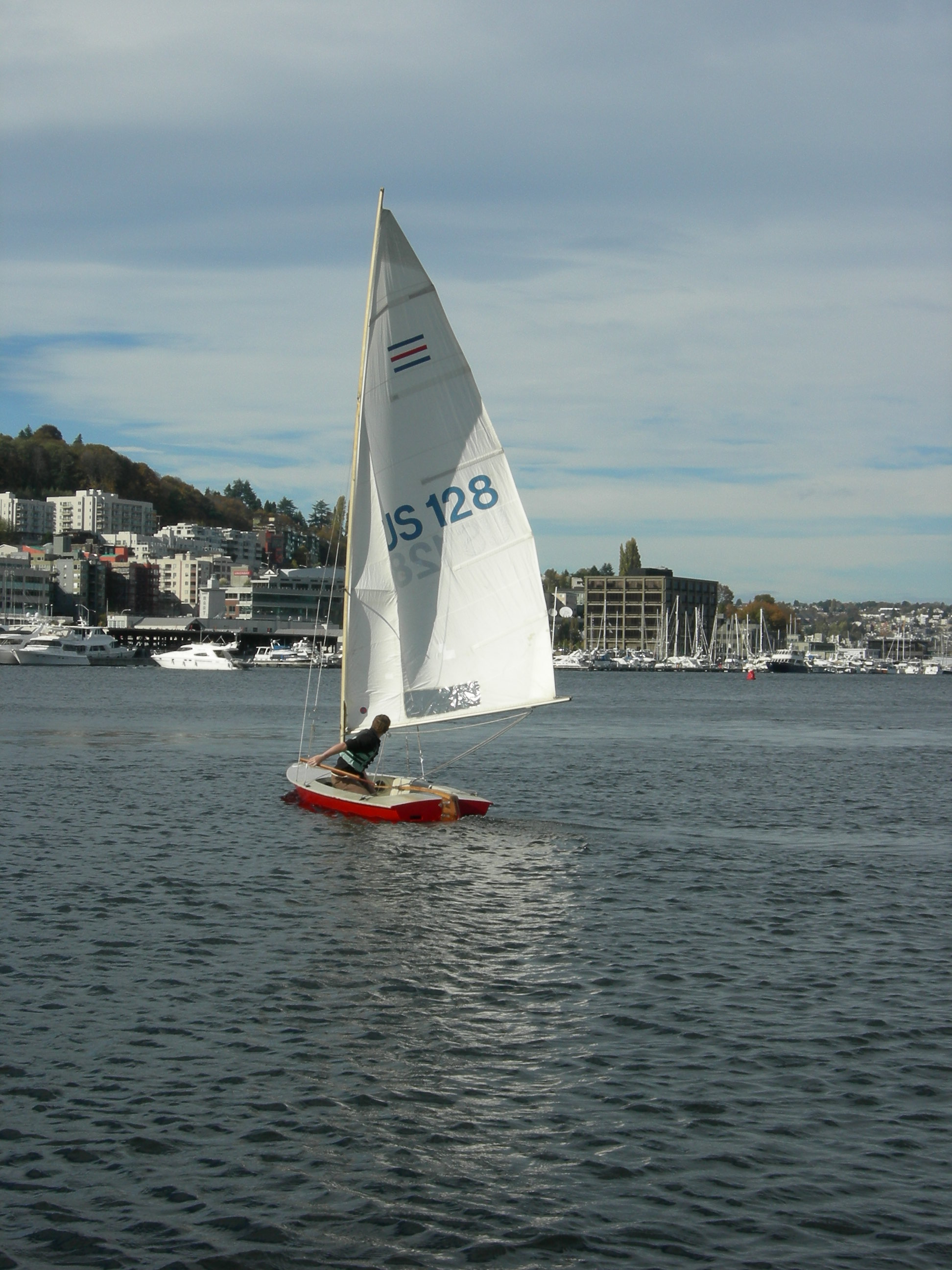 Small sailboat tacking out of the Center for Wooden Boats, South Lake Union, Seattle, Washington, USA.